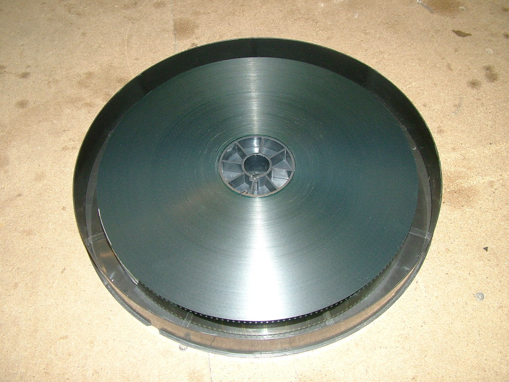 One 35mm film reel (~2000ft ) in a transport box